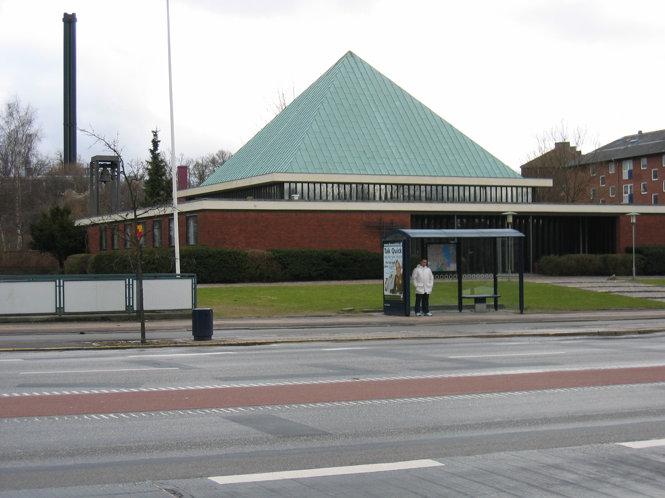 Bellahøj church, Bellahøj Parish, Sokkelund Herred, København County, Denmark